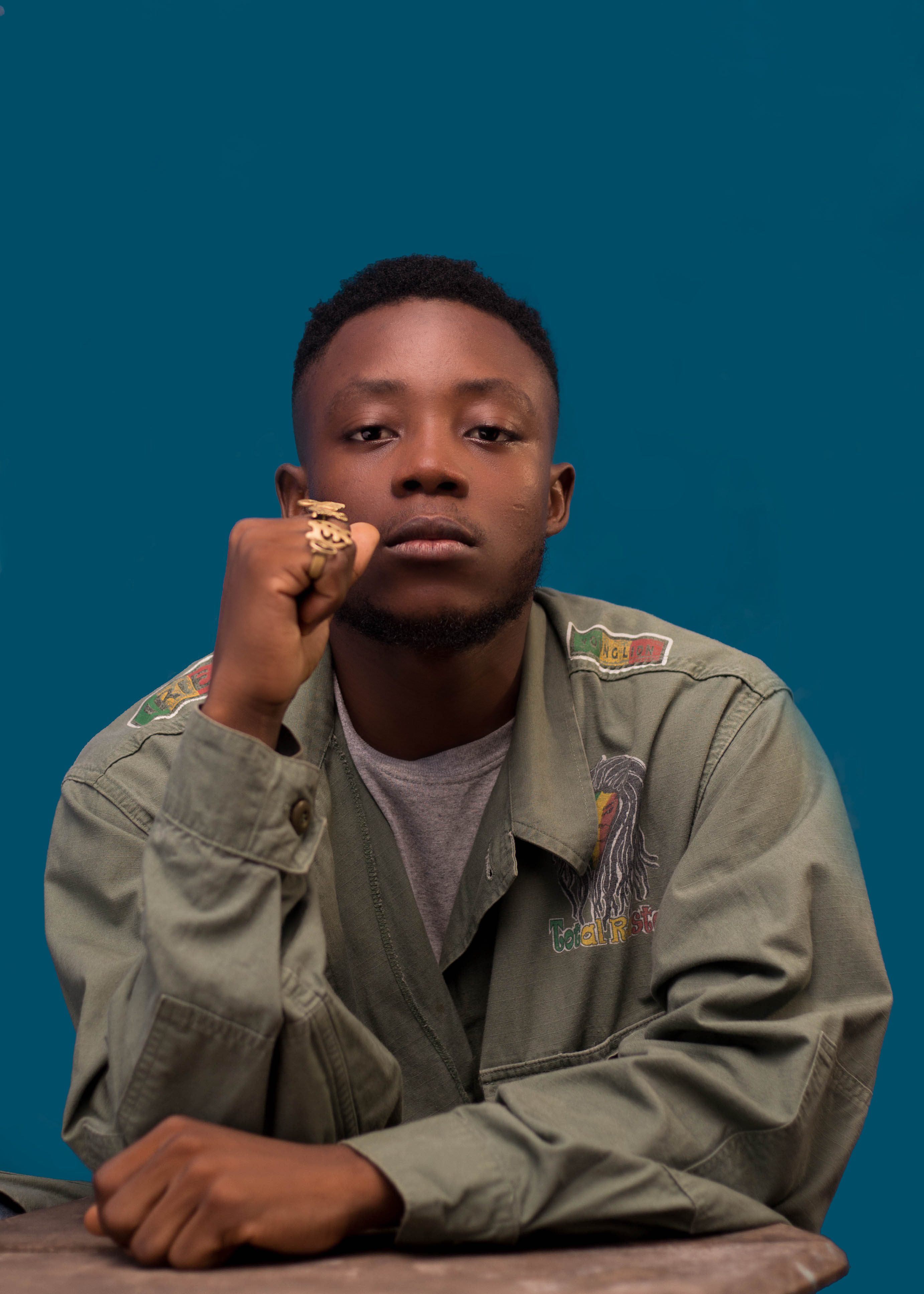 Portrait of Koo Kumi